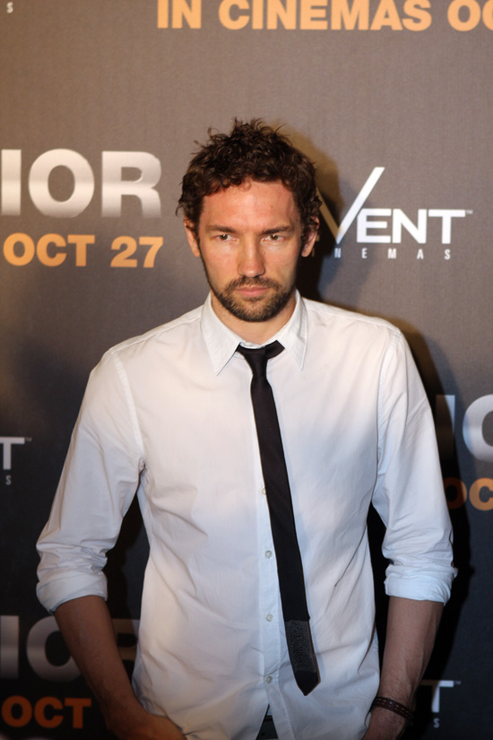 Nash Edgertonat Warrior Sydney Premiere